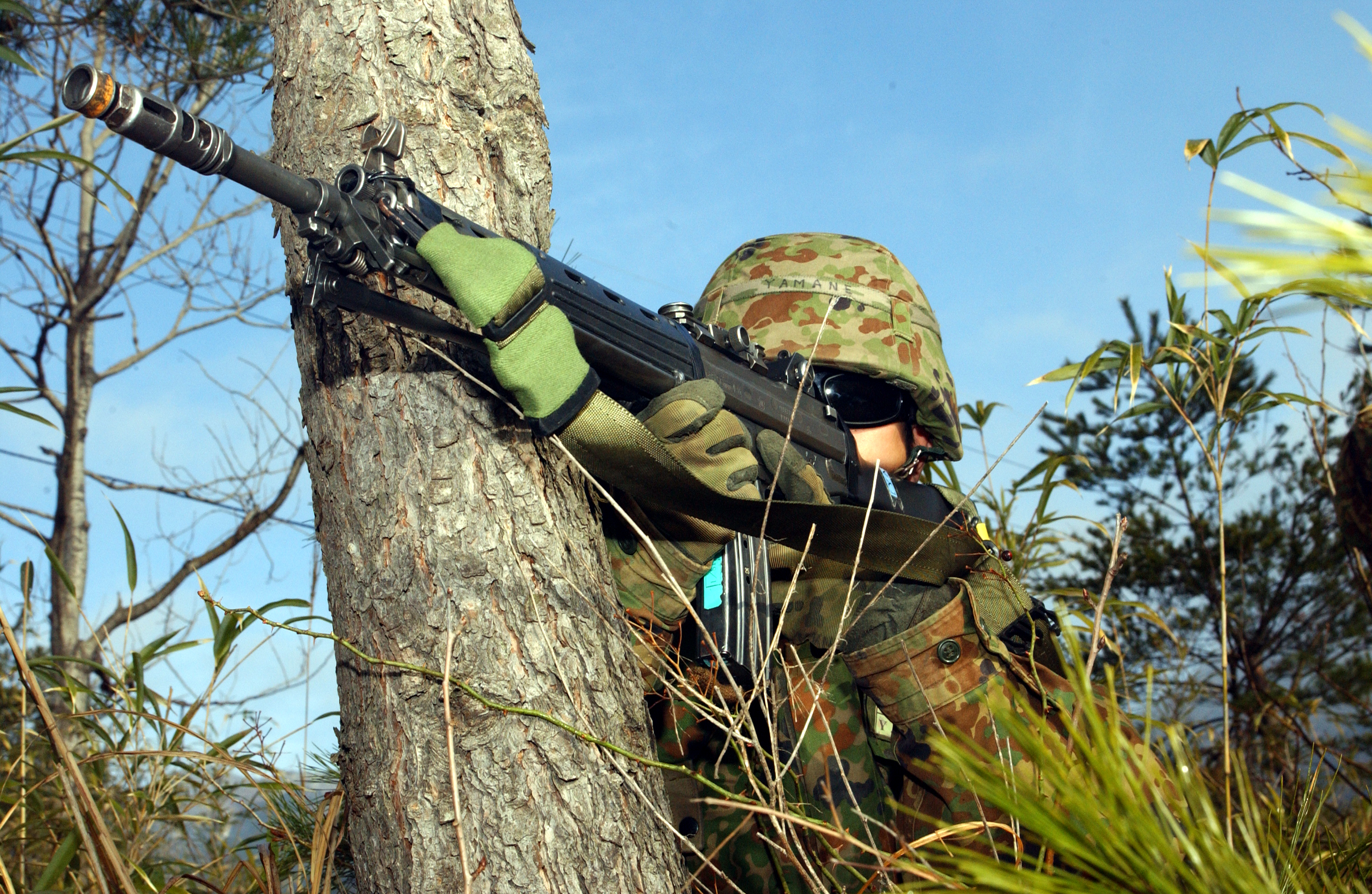 Summary Leading Pvt. Yasuhiro Yamane, Japan Ground Self Defense Force 8th Infantry Regiment, 13th Brigade rifleman demonstrates how the JGSDF conduct security to Marines from 1st Battalion, 23rd Marine Regiment, 4th Marine Division at Camp Nihonbara, Okayama Prefecture, Feb. 22. Photo by: Lance Cpl. John Scott Rafoss Photo ID: 200622723556 Submitting Unit: MCAS Iwakuni Photo Date:02/22/2006